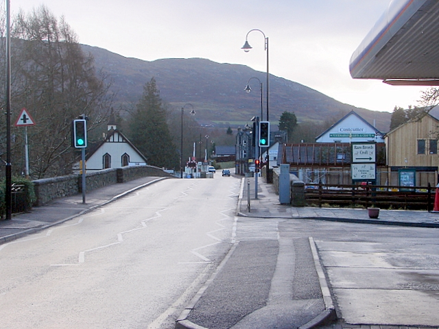 Fort Augustus Looking south along the A82, towards the Caledonian Canal crossing.